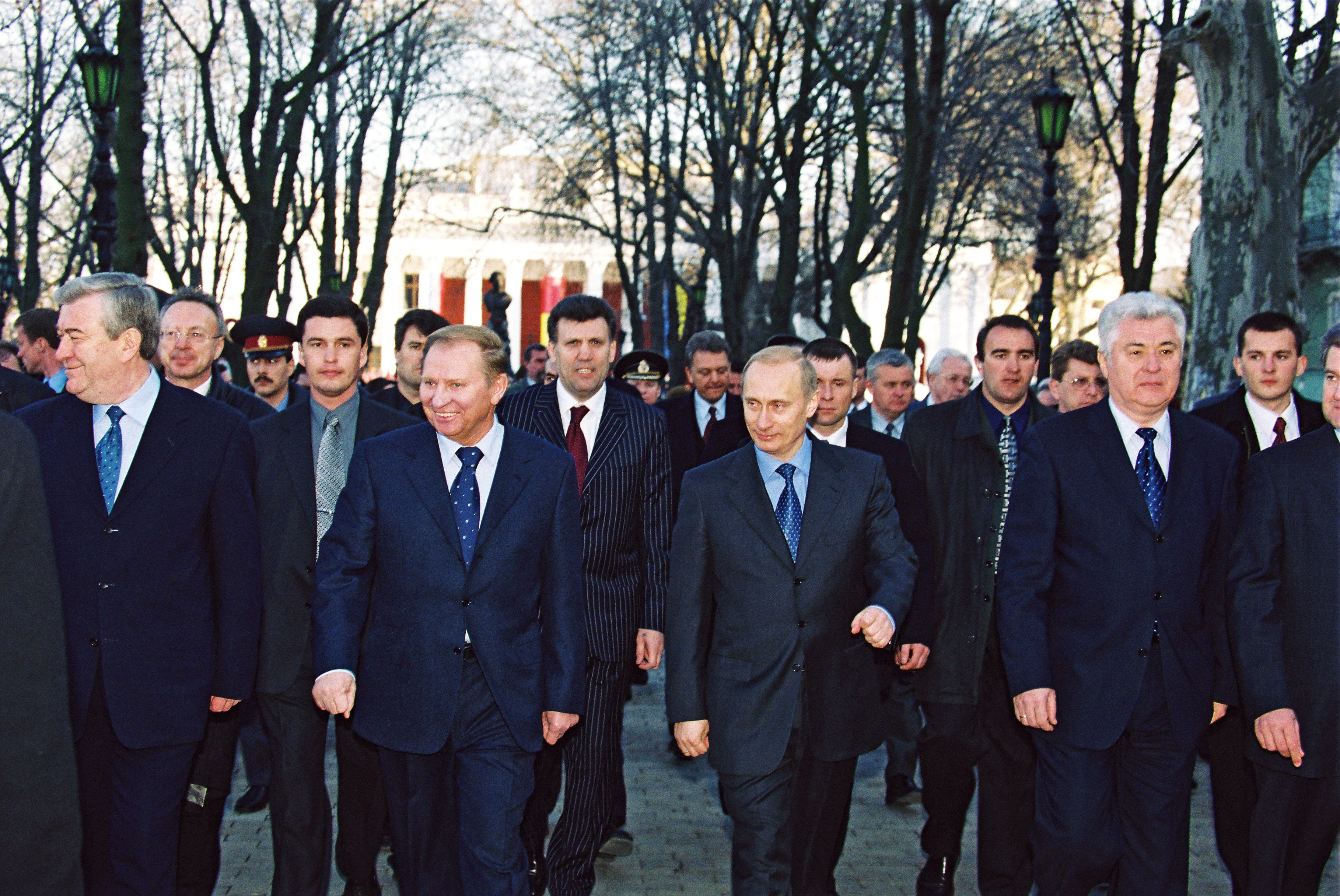 ODESSA. President Putin with Ukrainian President Leonid Kuchma and Moldovan President Vladimir Voronin strolling through the city.